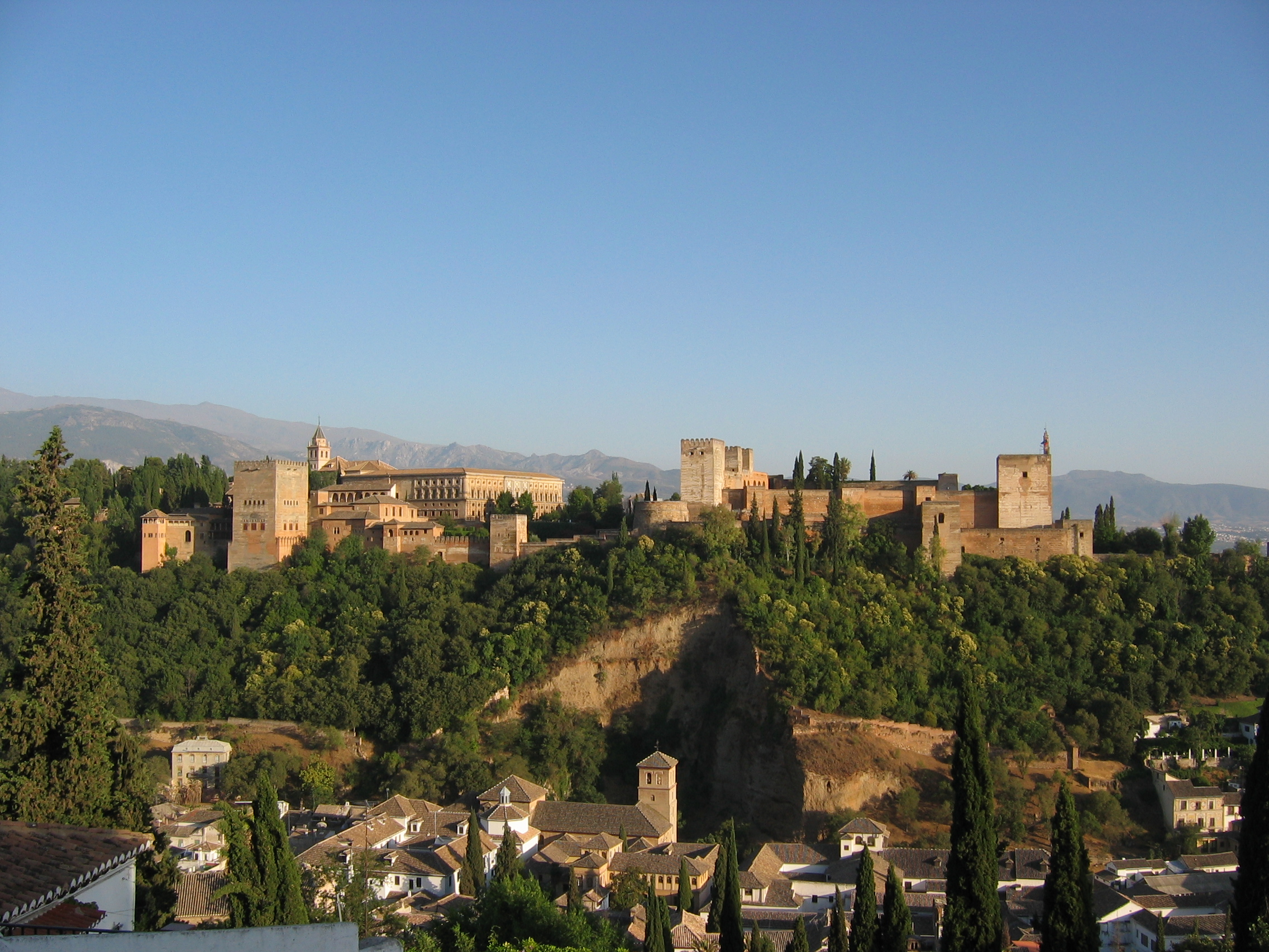 View of Alhambra from San Nicolas square viewpoint